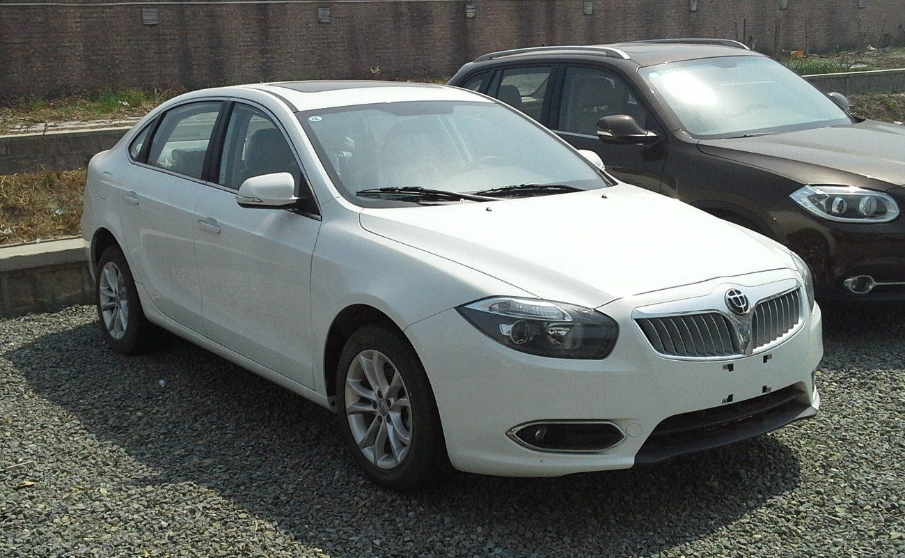 Brilliance H530 photographed in Beijing, China.